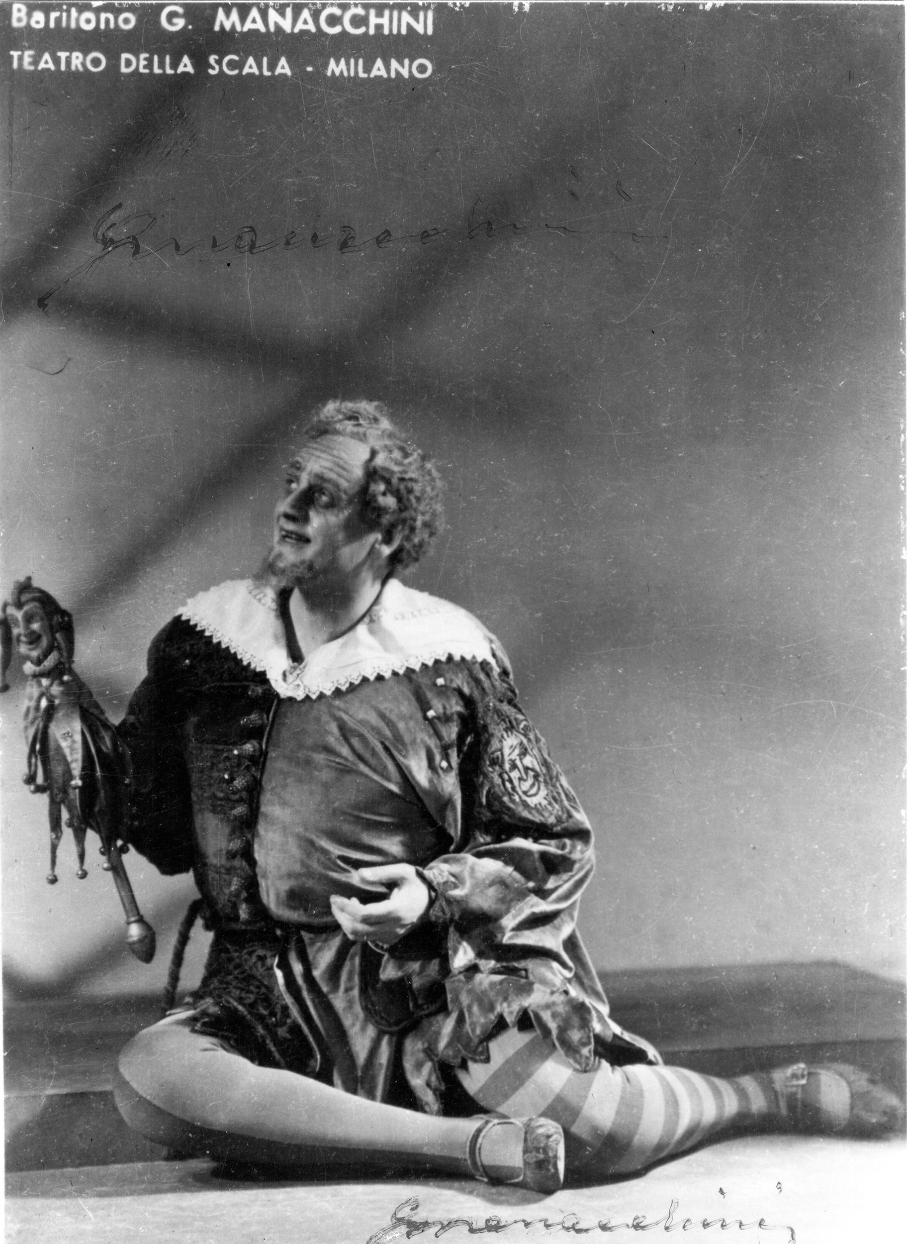 playing Rigoletto, Teatro alla Scala (Milan)